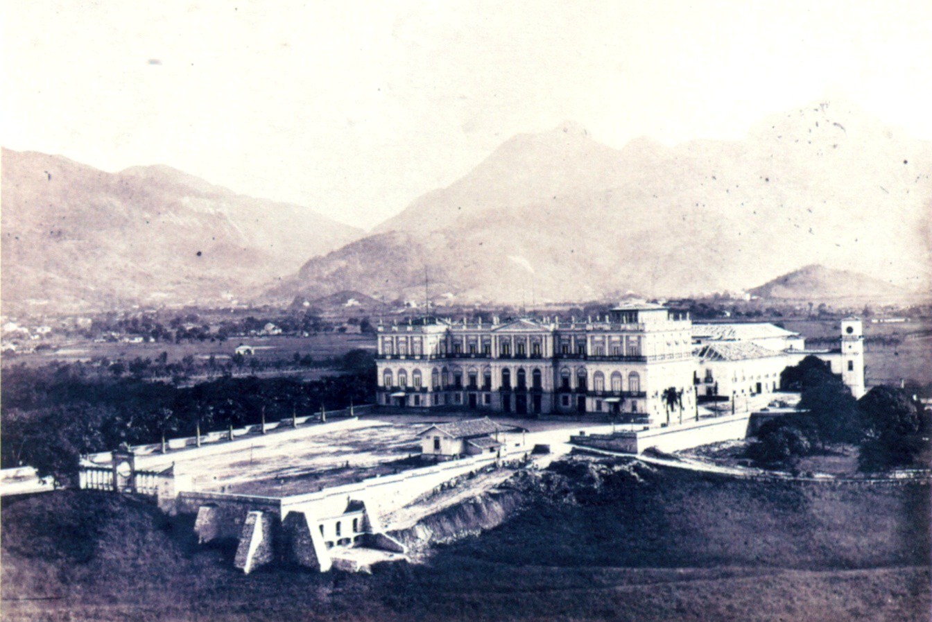 The Palace of São Cirstóvão, c.1862